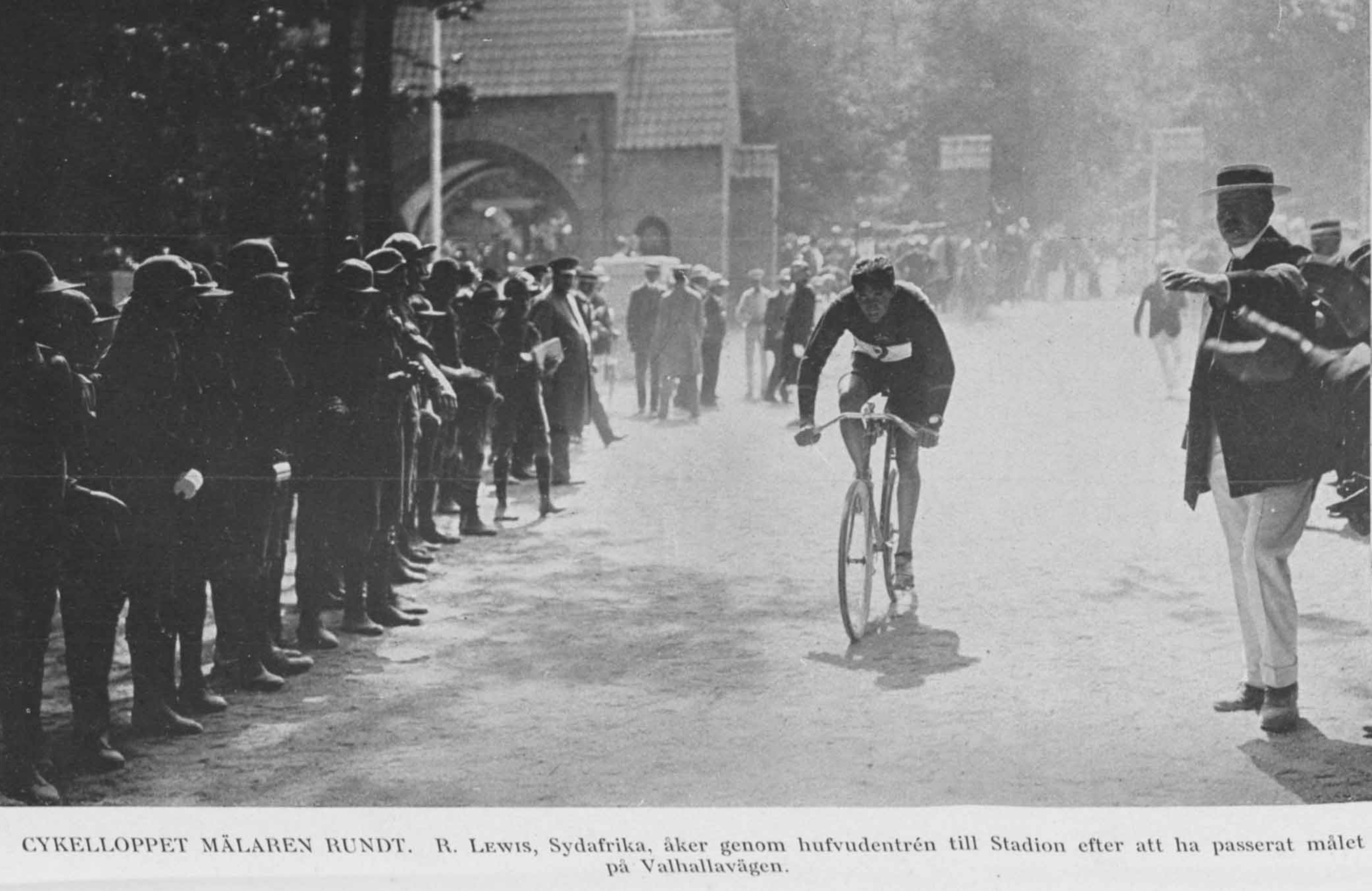 Biking at the 1912 olympics in Sweden.